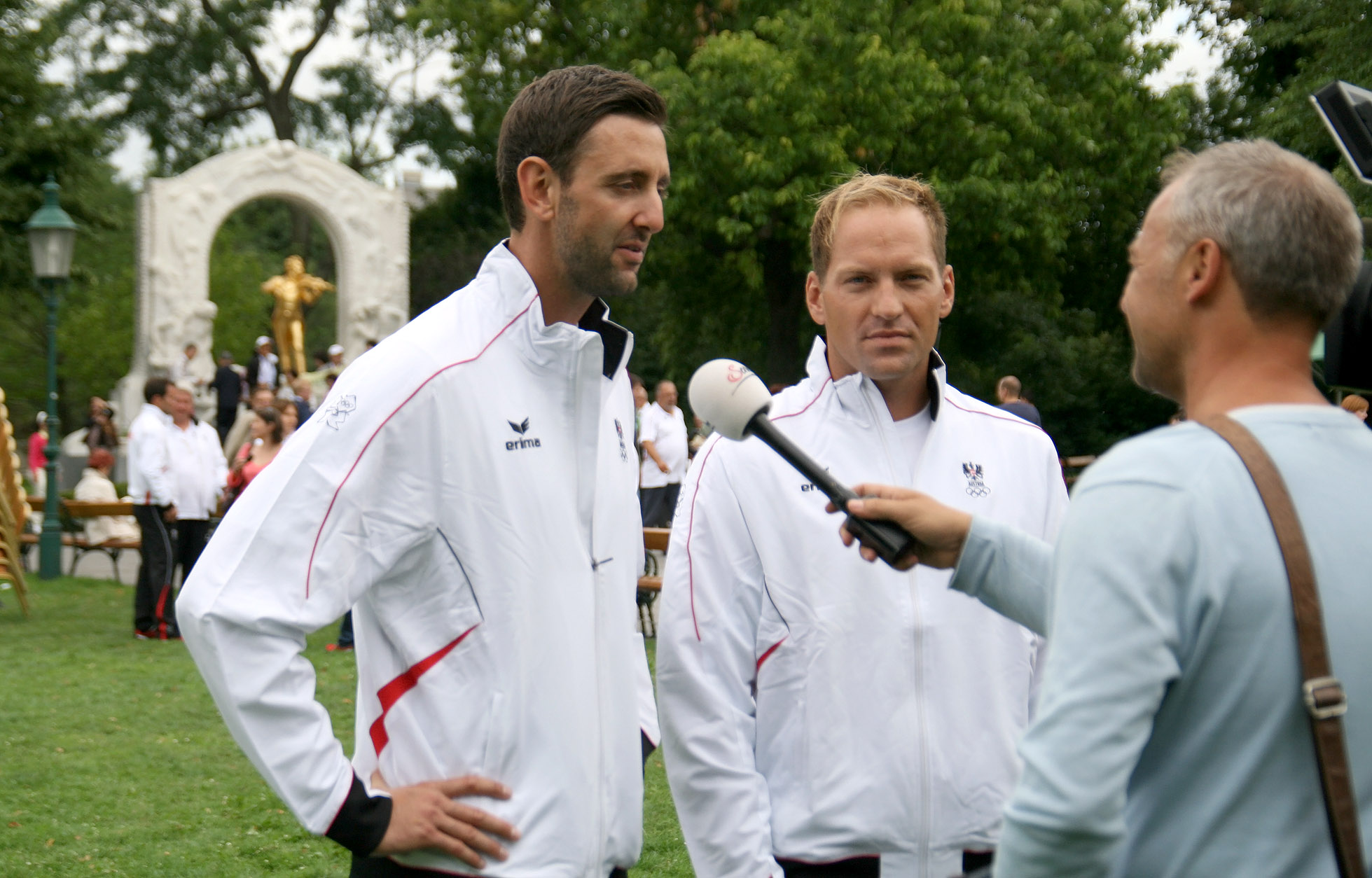 Beachvoleyball players Clemens Doppler and Alexander Horst at the hand-out of the Austrian teams official attire for the 2012 Summer Olympics in London (Stadtpark, Vienna).